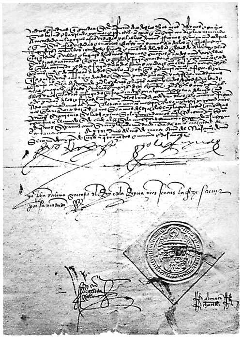 Copy of the Spanish edict of expulsion